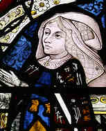 Stained glass portrait of Elizabeth Tilney